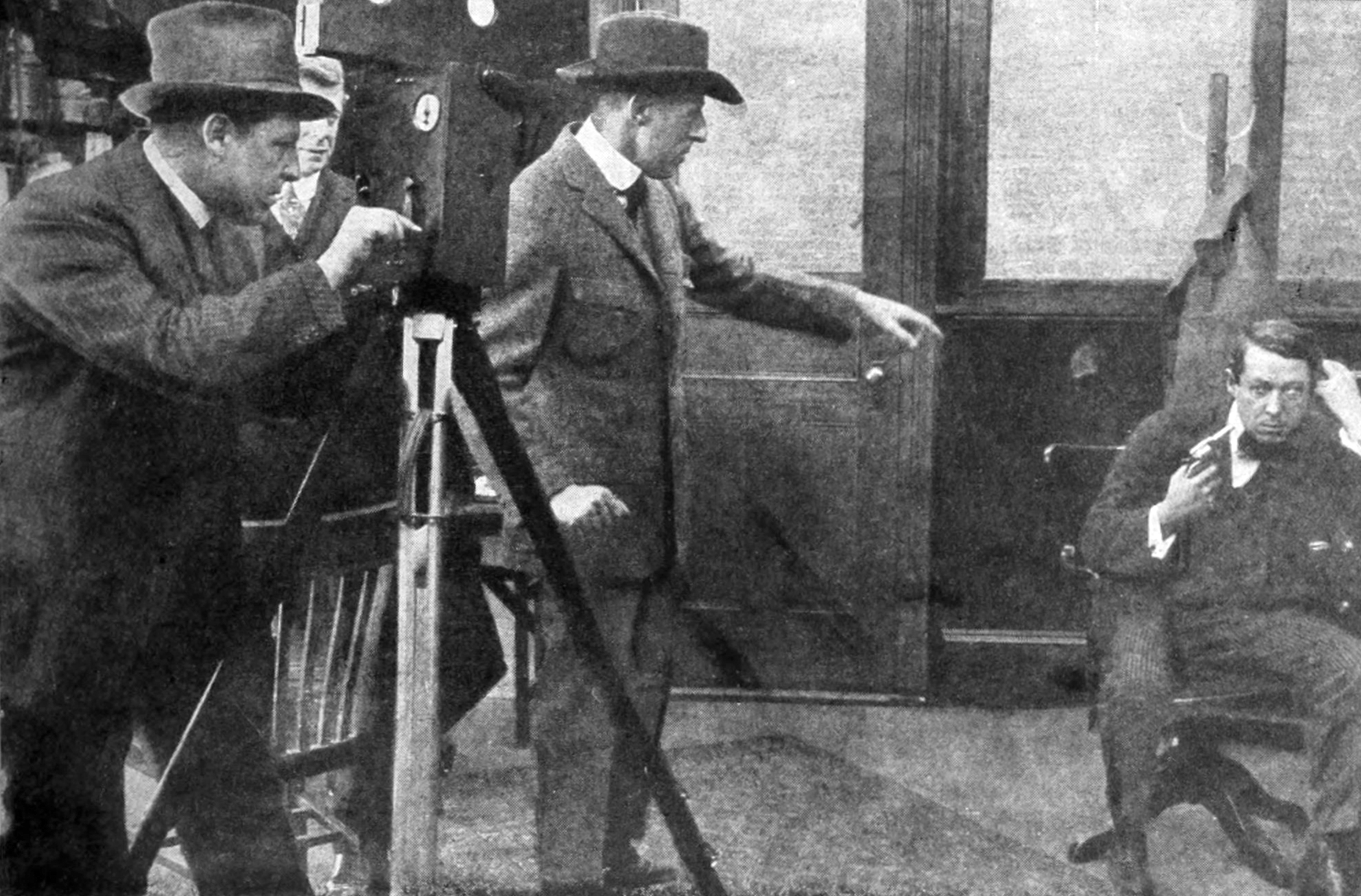 Production still from "The Escape" (made in 1913, not released until 1914). Left, filming, Billy Bitzer. Center: D.W. Griffith. Right, Henry B. Walthall.